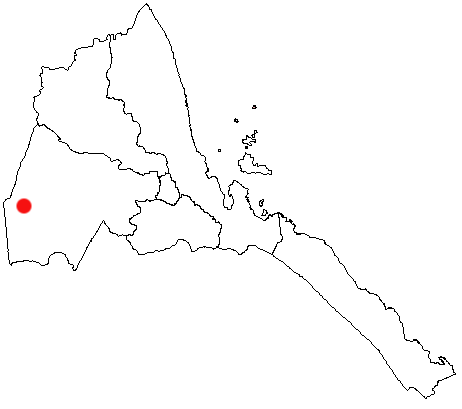 Teseney, Eritrea Location Map; created with the GIMP. Made by Acntx.